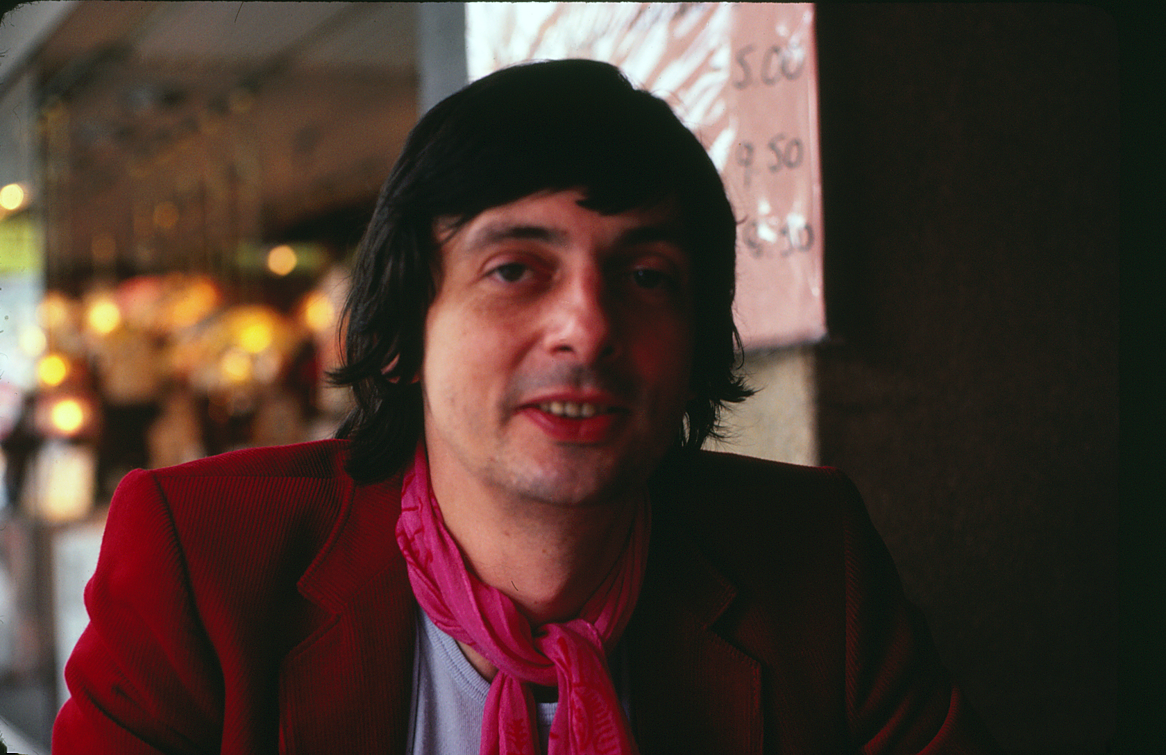 Philip Catherine, Montreux, Switzerland, July 1980. Photograph by Patty Mooney of San Diego, California.